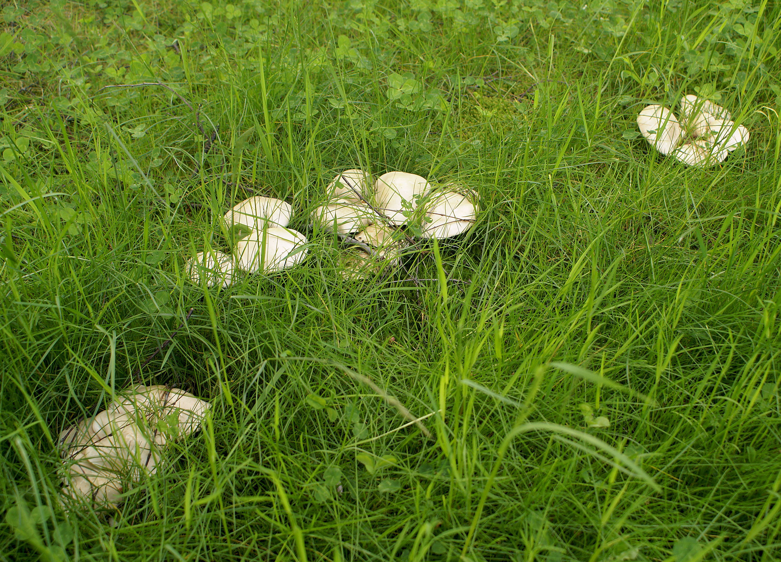 Calocybe gambosa mushrooms as found in the long grass together forming a small crescent.